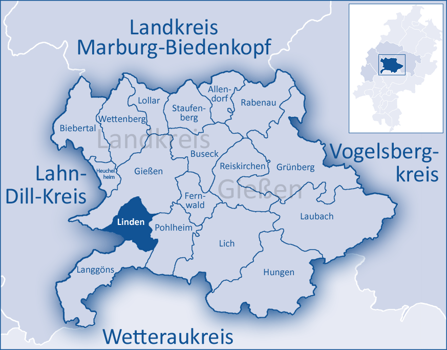 The map shows a district in the area of Gießen (district)